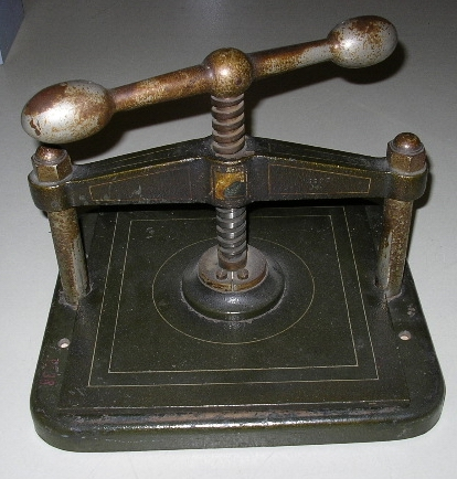 Copying-press, iron, 19th century, Bremen (Germany), Focke-Museum